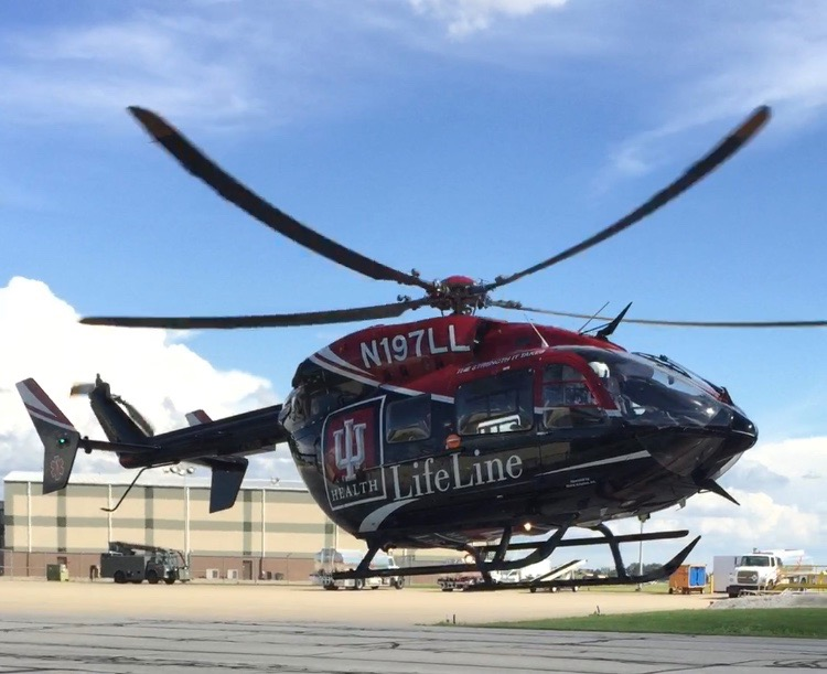 IU Health LifeLine N197LL (Terre Haute)